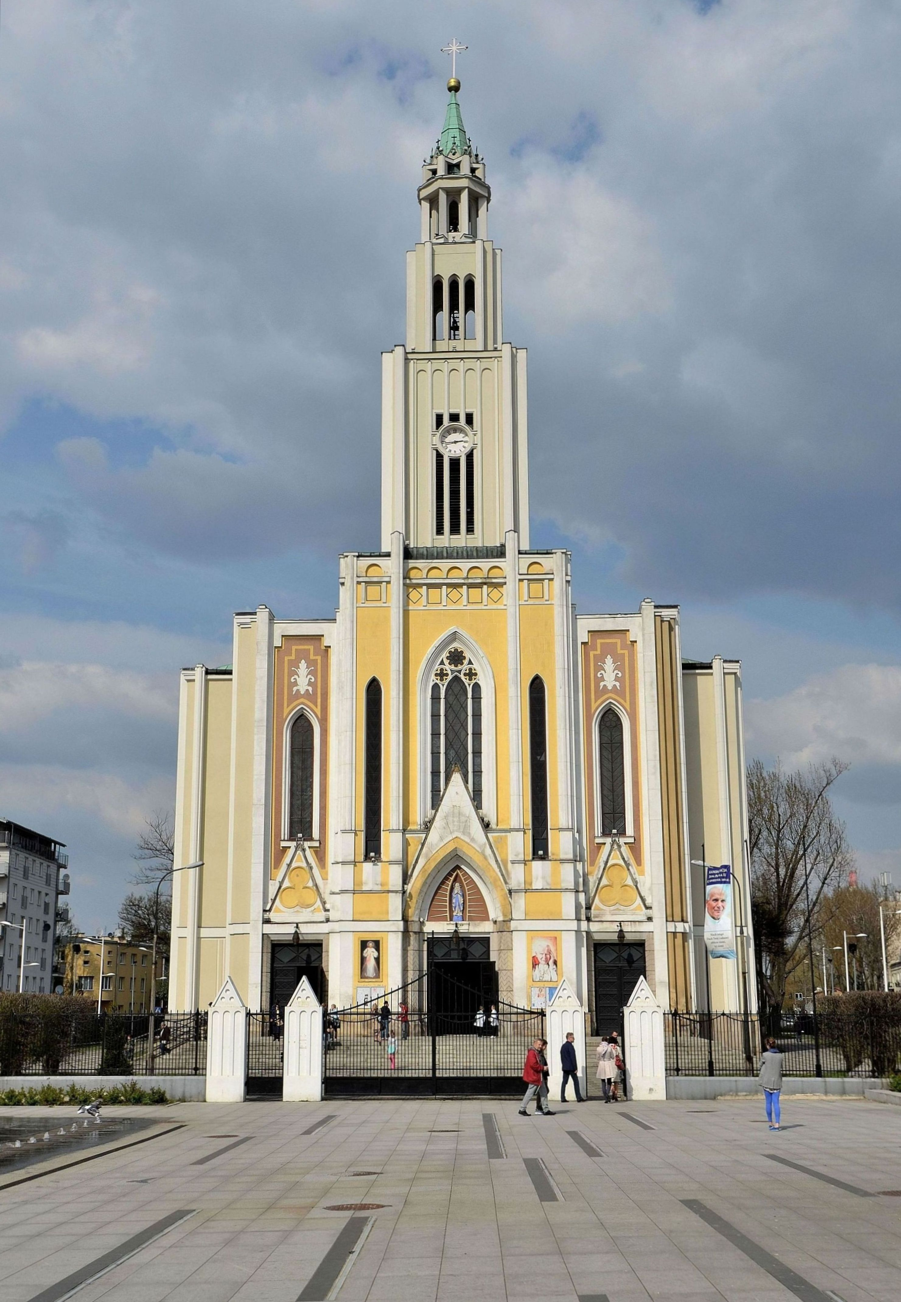 Church of the Immaculate Heart of Mary in Warsaw